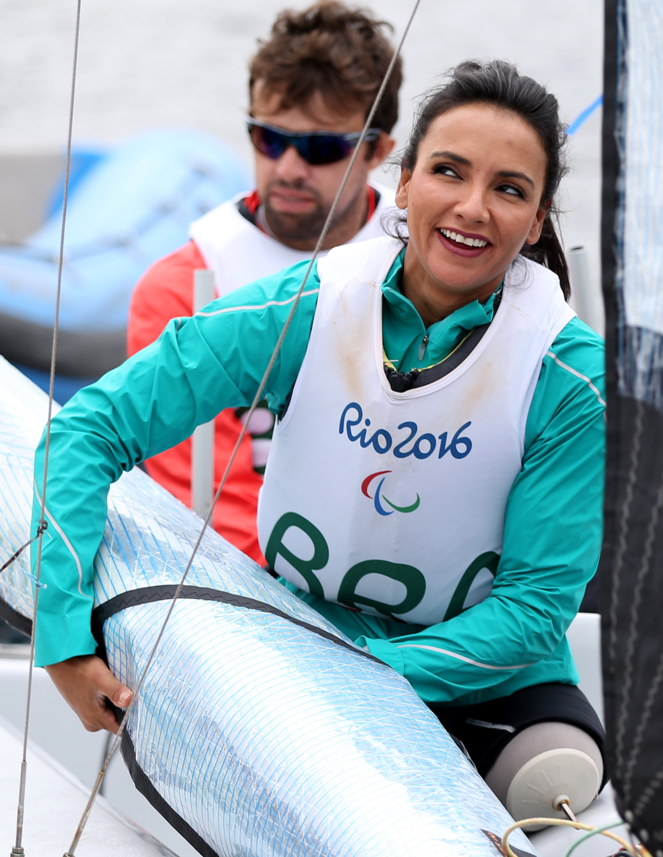 Marinalva de Almeida and Bruno Landgraf - Rio de Janeiro Paralympics (Tânia Rêgo/Agência Brasil)